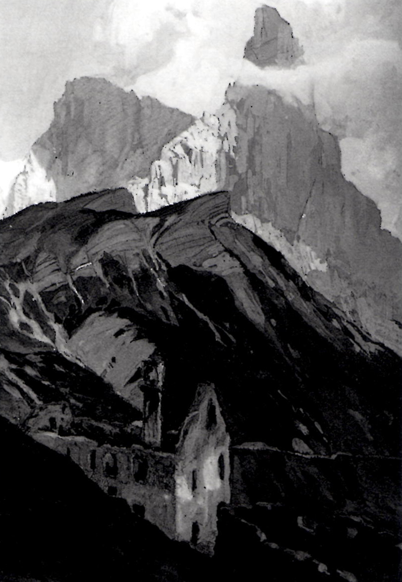 Ruins at Passo Rolle after WWI